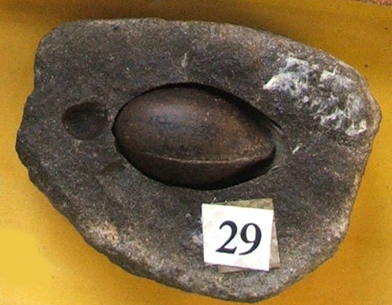 Trigonocarpus, a fossil seed. From the Sedgwick Museum's collection.